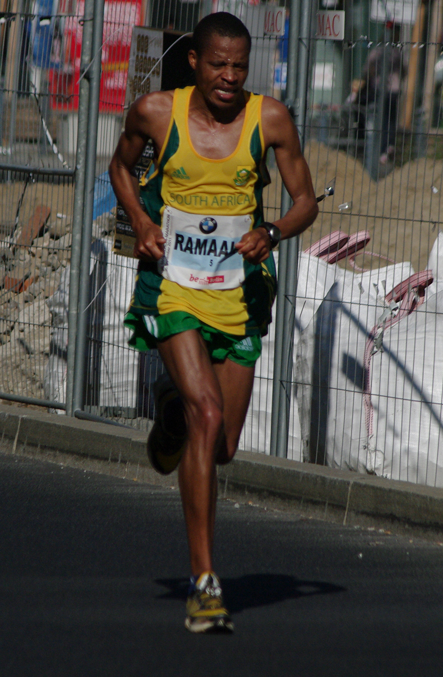 Hendrick Ramaala running the Berlin Marathon 2011. Here at Kilometer 34, Tauentzienstraße.